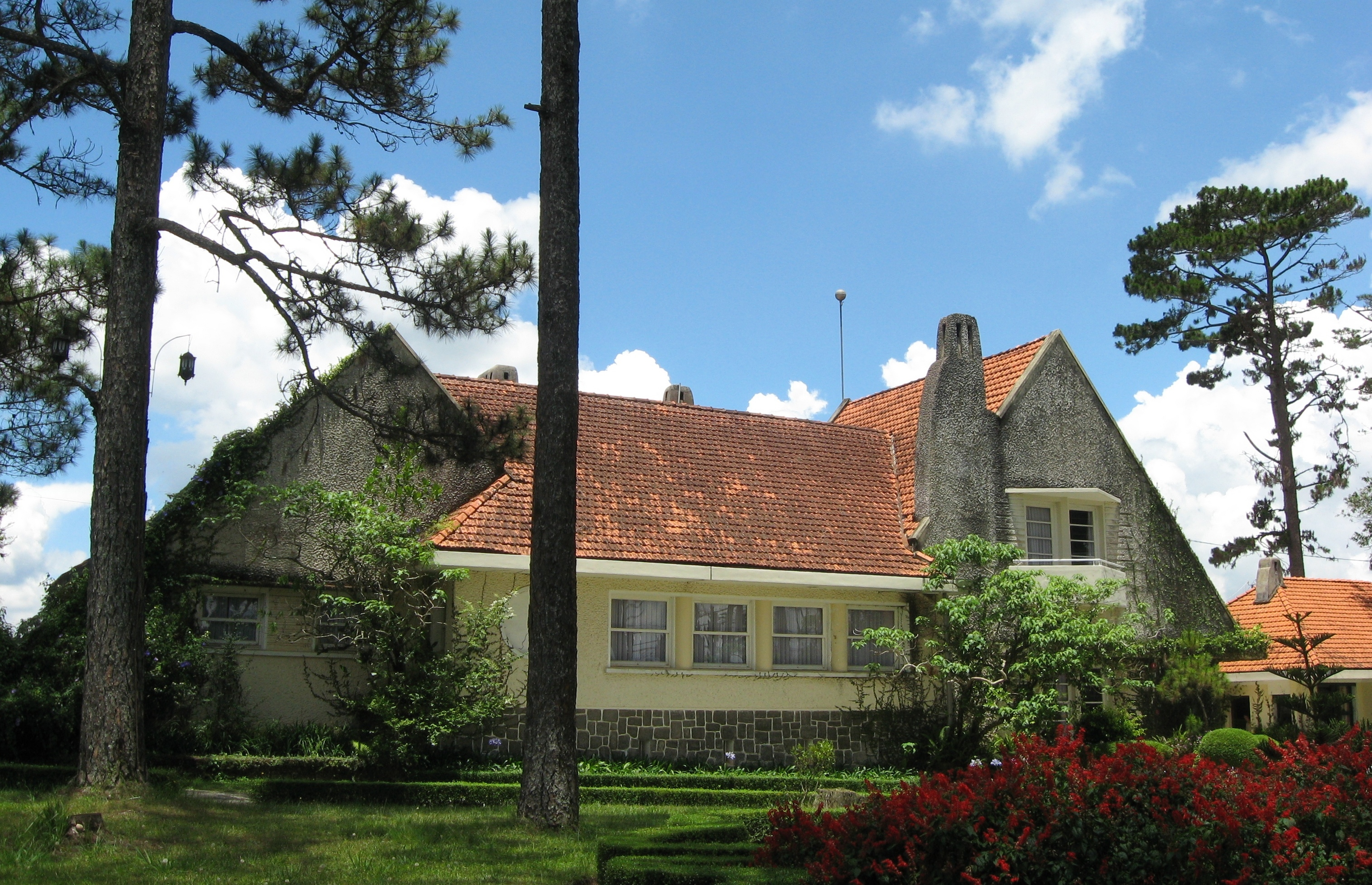 Villa 16 Tran Hung Dao, Da Lat